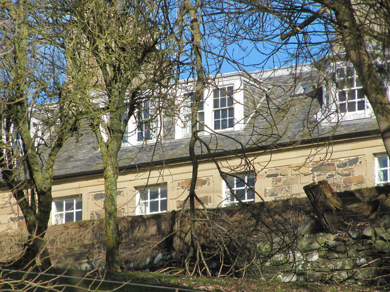 Renton House